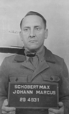 Max Johann Markus Schobert was SS-Sturmbannführer and commandant of the Abteilung Schutzhaftlager ('protective custody') at Buchenwald concentration camp. In the Buchenwald Camp Trial (part of the Dachau Trials) he was sentenced to death by hanging.